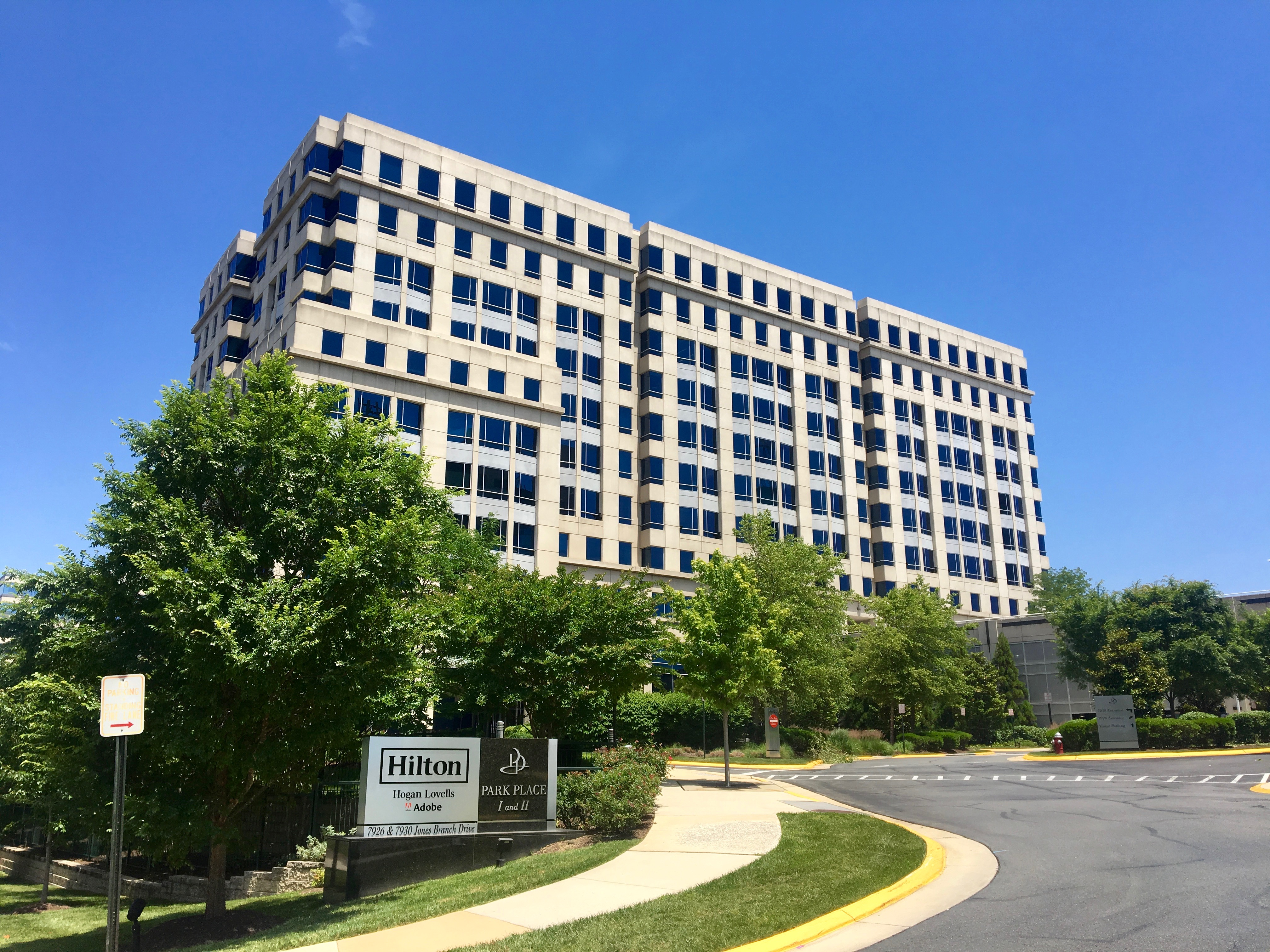 Hilton Worldwide headquarters Park Place II, number 7930 James Branch Drive, Tysons Corner, Fairfax County, Virginia, United States of America.